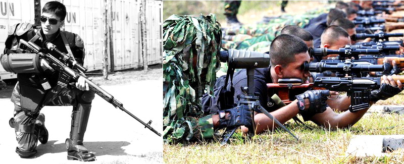 Dragunov Sniper